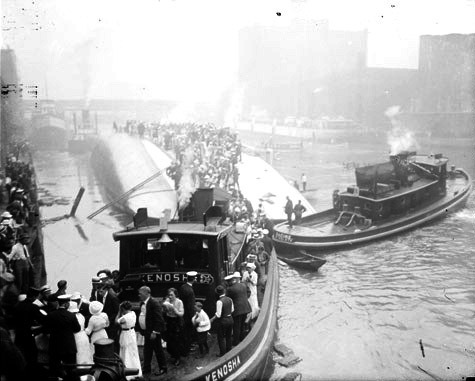 Eastland disaster, the Kenosha, a tugboat, rescuing survivors from the hull of the overturned steamer Chicago Daily News, Inc., photographer. CREATED/PUBLISHED [ca. 1915 July 24] SUMMARY Image of the Kenosha, a tugboat, rescuing survivors from the hull of the overturned Eastland steamer in the Chicago River in Chicago, Illinois. NOTES Images related to this photonegative taken by a Chicago Daily News photographer were published in the newspaper between July 24-August 13, 1915. Cite as: DN-0064936, Chicago Daily News negatives collection, Chicago Historical Society.